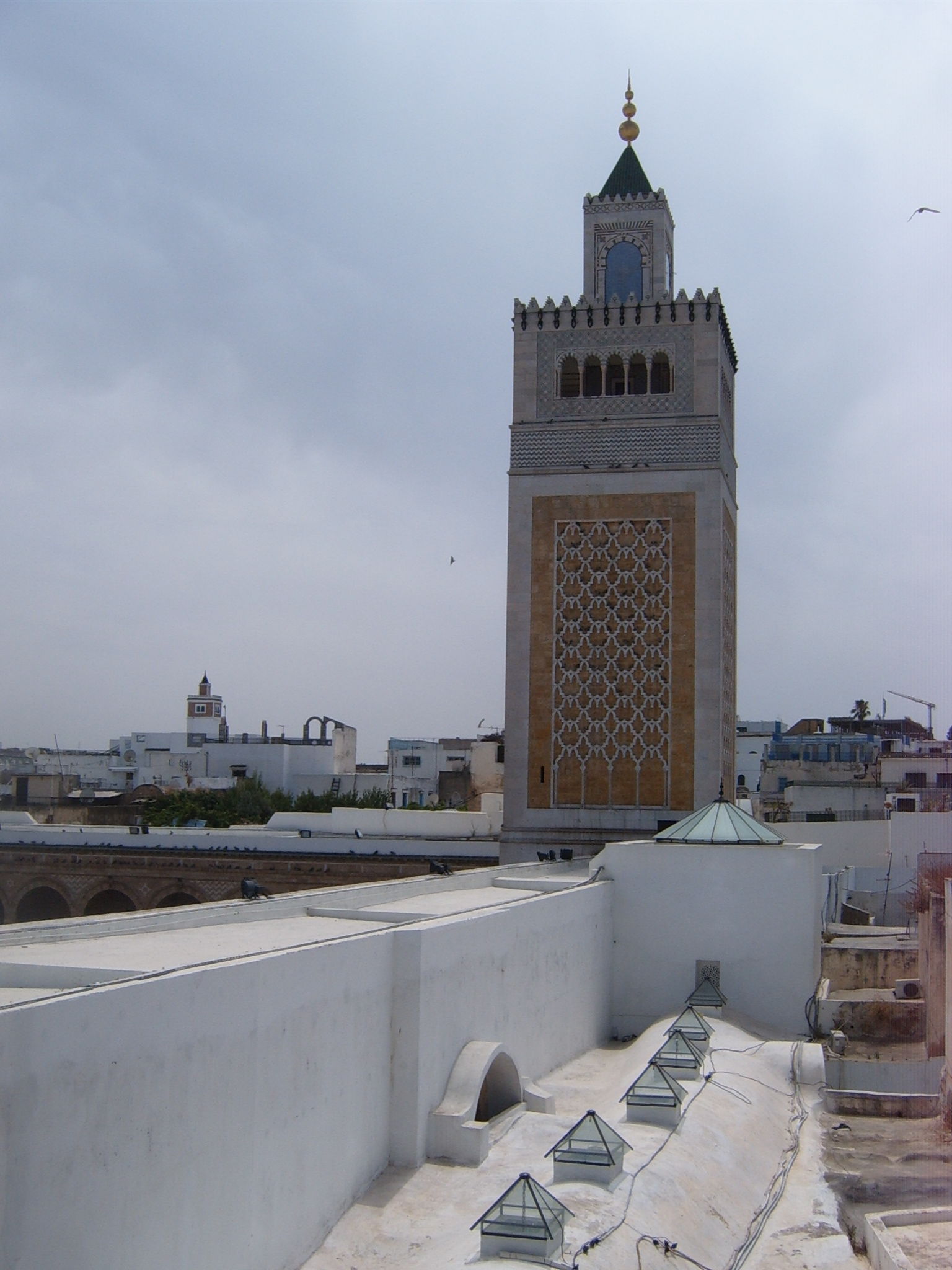 Minaret of Zitouna Mosque in Tunis